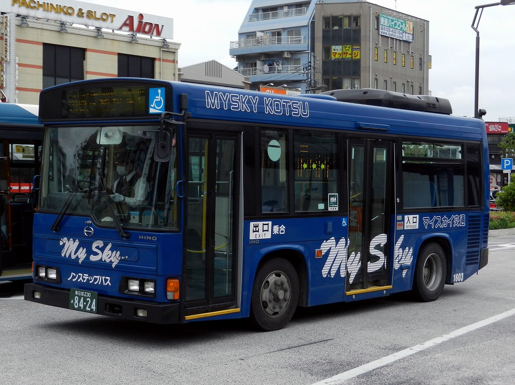 Mysky kotsu Hino Rainbow HR (7m,KK-HR1JEEE)